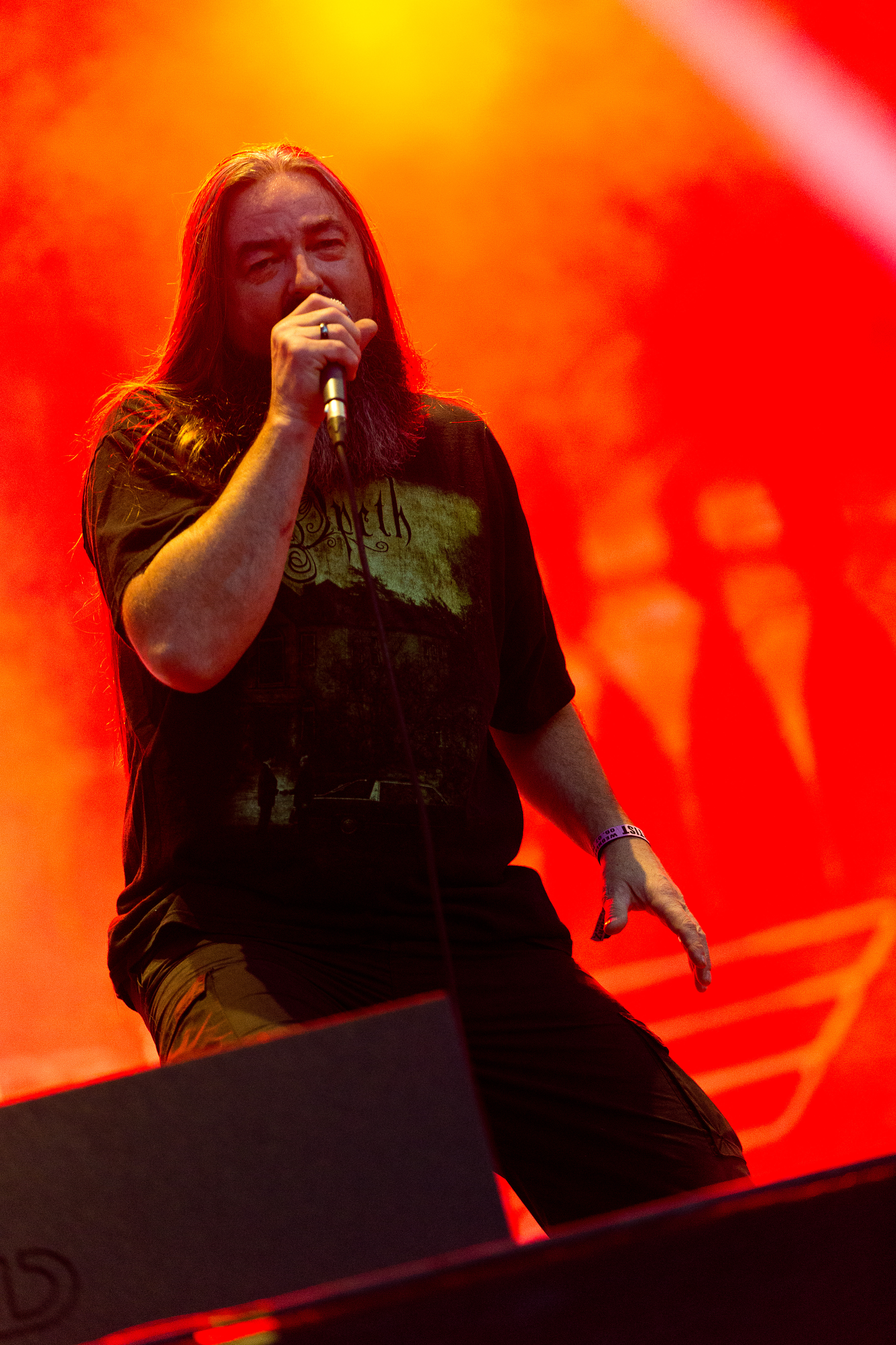 The British thrash metal band Onslaught at the Rockharz Open Air 2016 in Ballenstedt/Germany.